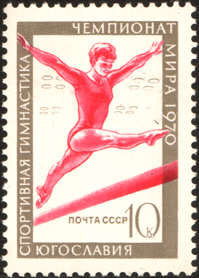 USSR stamps: Gymnastics, Ljubljana, SR Slovenia, SFR Yugoslavia. Series: World Championships